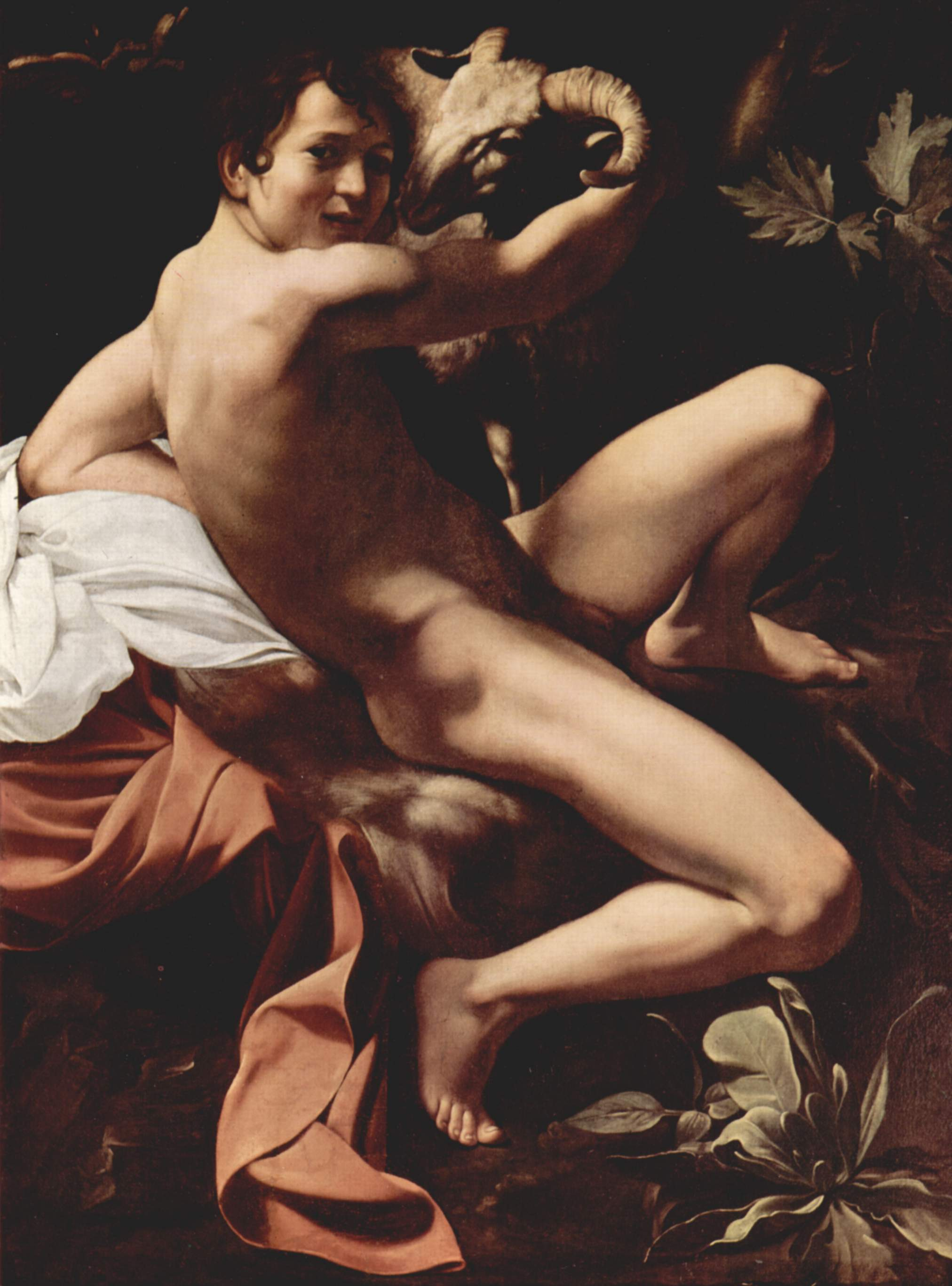 A depiction of John the Baptist, the cousin of Jesus whose calling was to prepare the way for the coming of the Messiah. The painting is also known as Youth with a Ram, and there is another version in the Capitoline Museums in Rome.